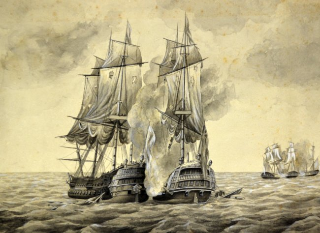 A drawing depicting the action of 14 August 1761 off Cape Finisterre at which HMS Bellona captured French ship Courageux. Drawn by H. Fletcher c. 1890 Brilliant is engaged with Maliceuse and Hermione at far right.[1]